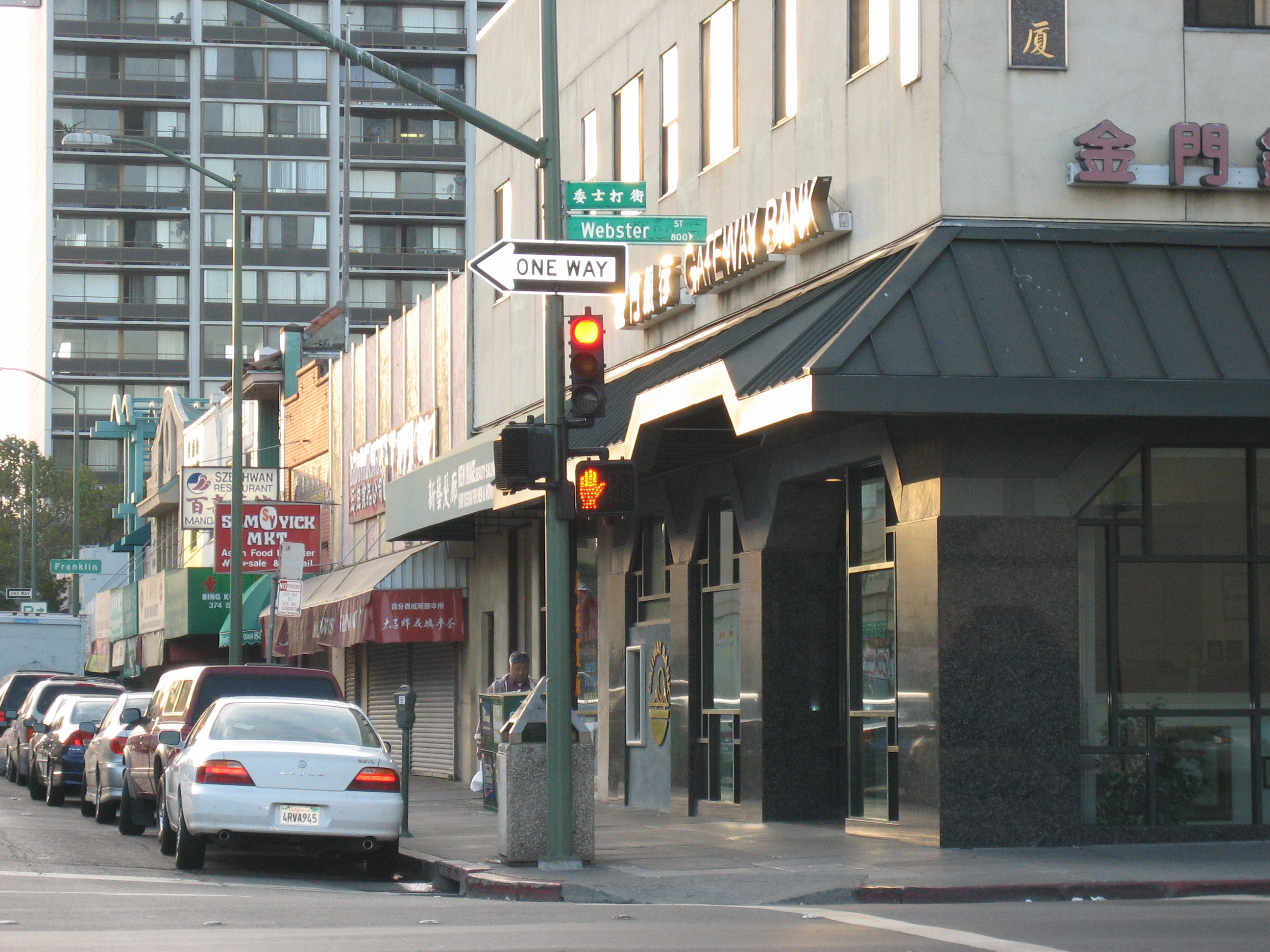 Uploading image of Chinatown